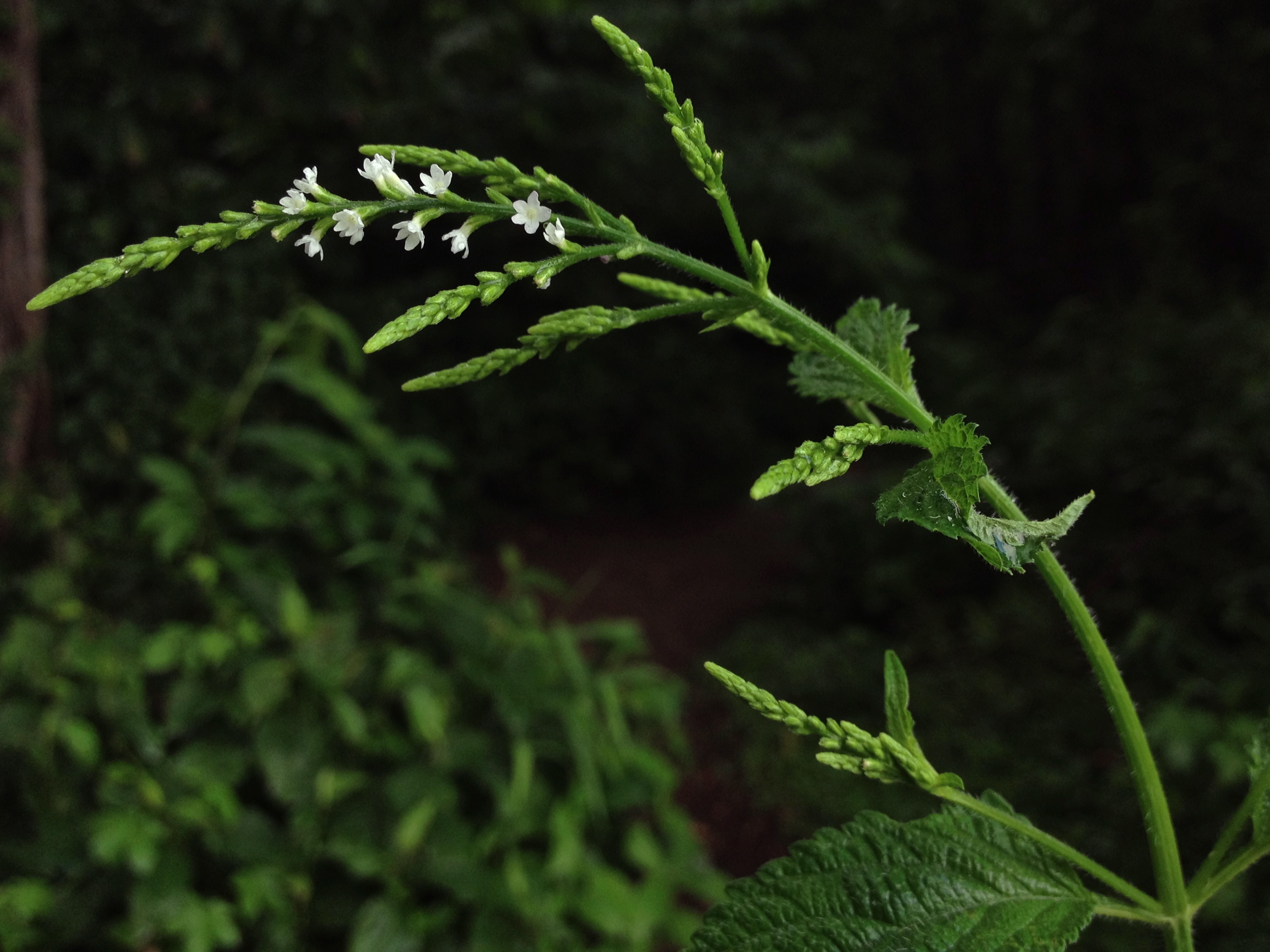 Photo of Verbena urticifolia in flower. This is a native plant growing wild in River Bend Park, Fairfax county Virginia, USA. This species is a member of the Verbenaceae family.